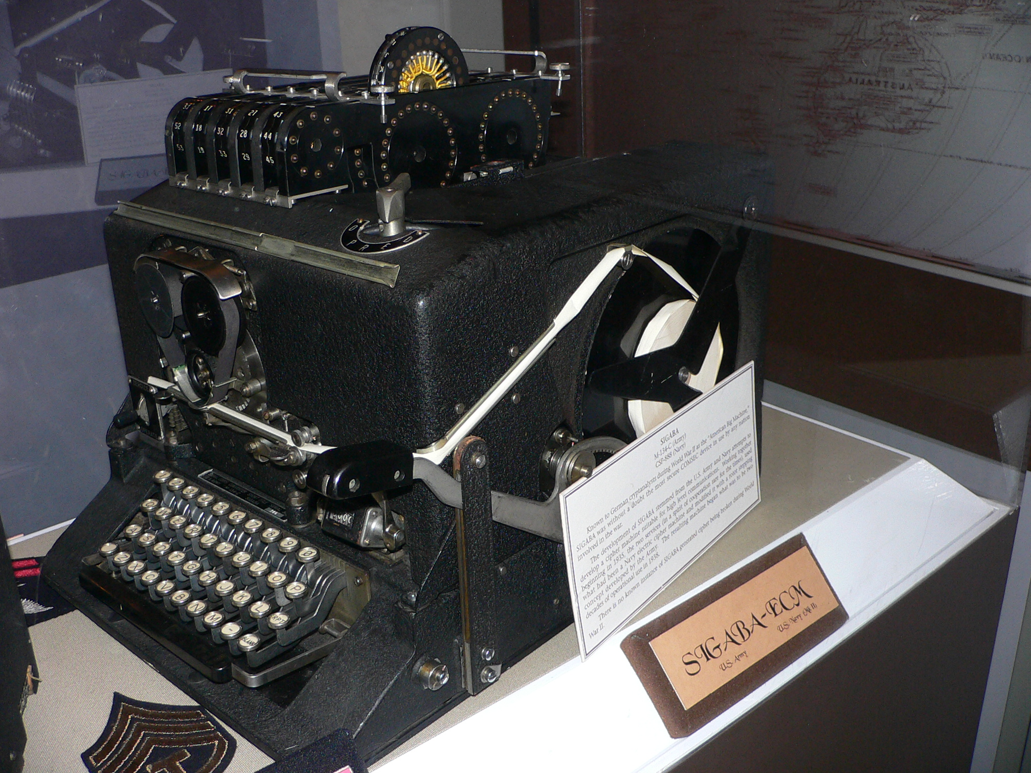 Pictures taken by myself at the US National Cryptologic Museum.